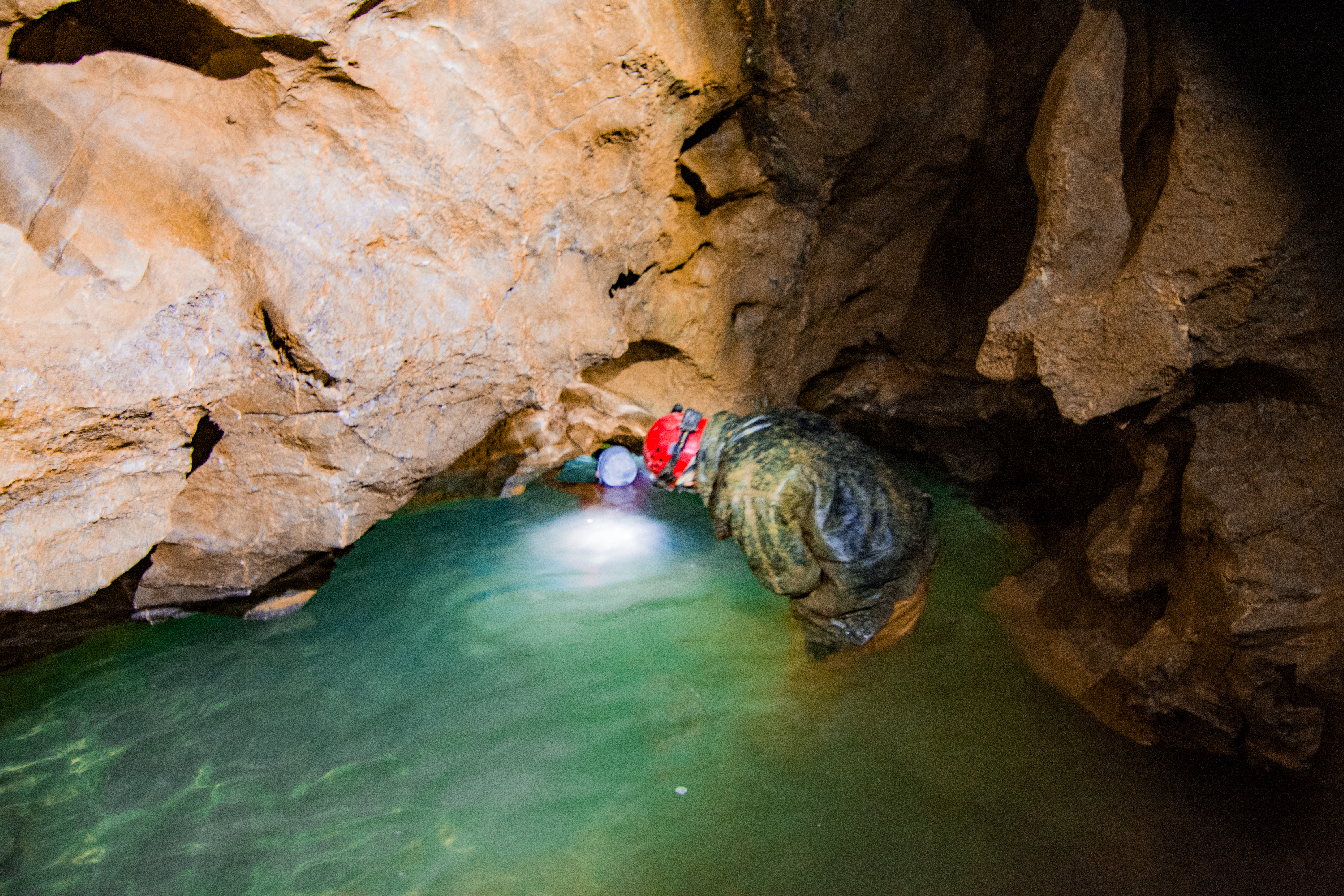 Going through the duck of Kawachi no Kaza-ana("Kawachi Wind Cave").